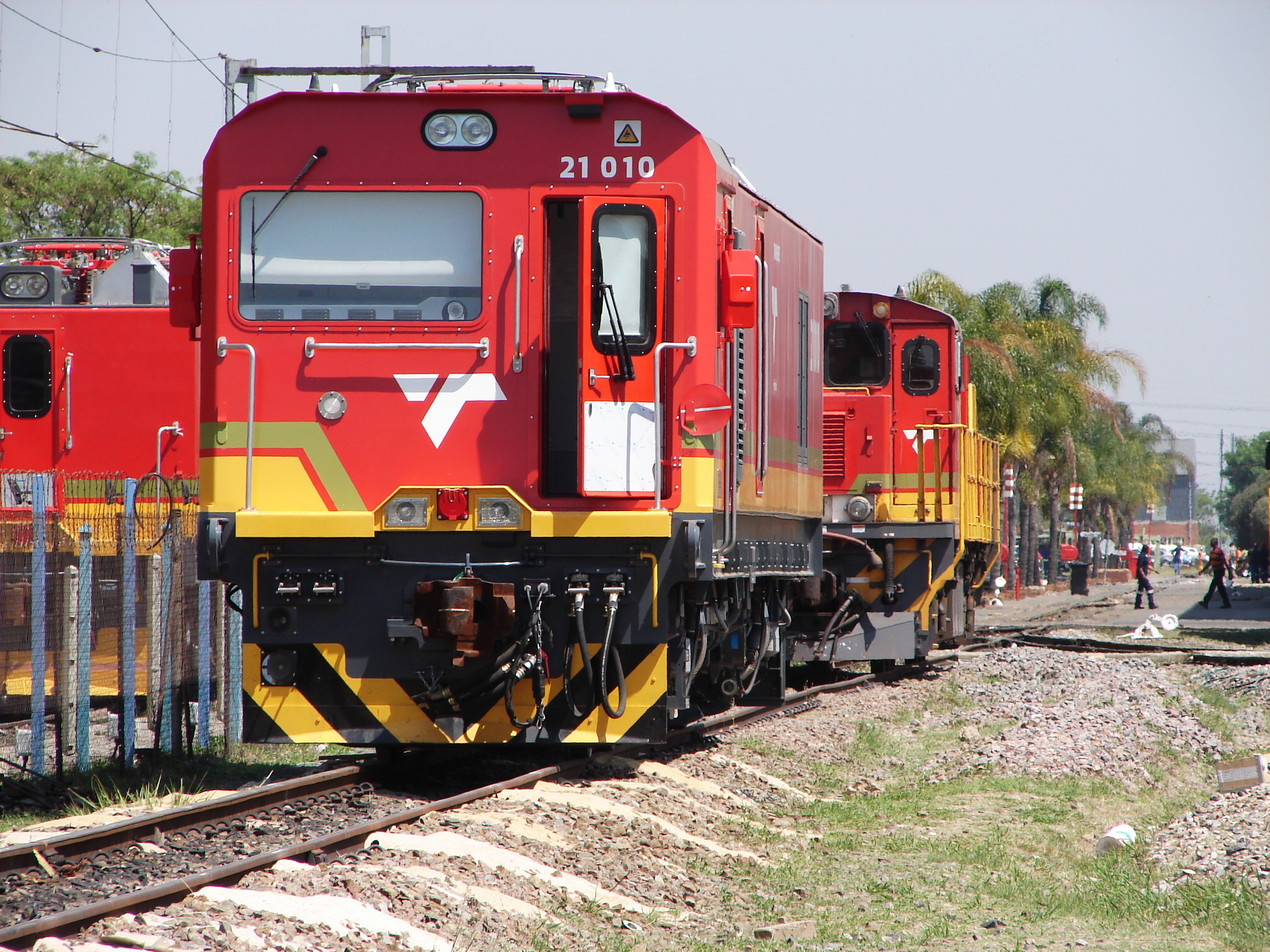 TFR Class 21E no. 21-010Location: Koedoespoort, Pretoria